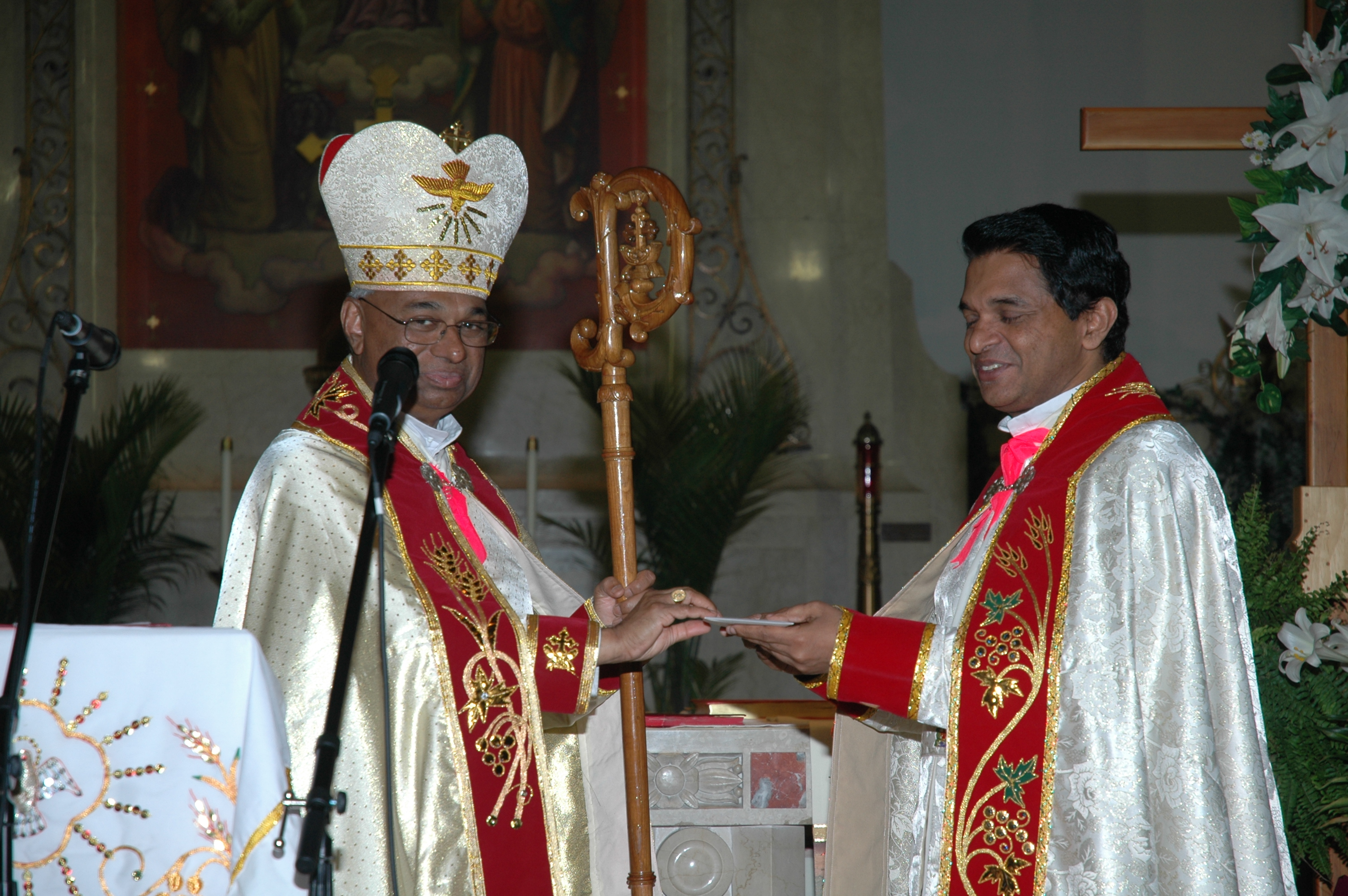 Bishop of St. Thomas Syro-Malabar Catholic Diocese of Chicago Mar Jacob Angadiath handing over to the first Region Director Rev. Fr. Abraham Mutholath, decree establishing the Knanaya Region on April 30, 2017 in Chicago.